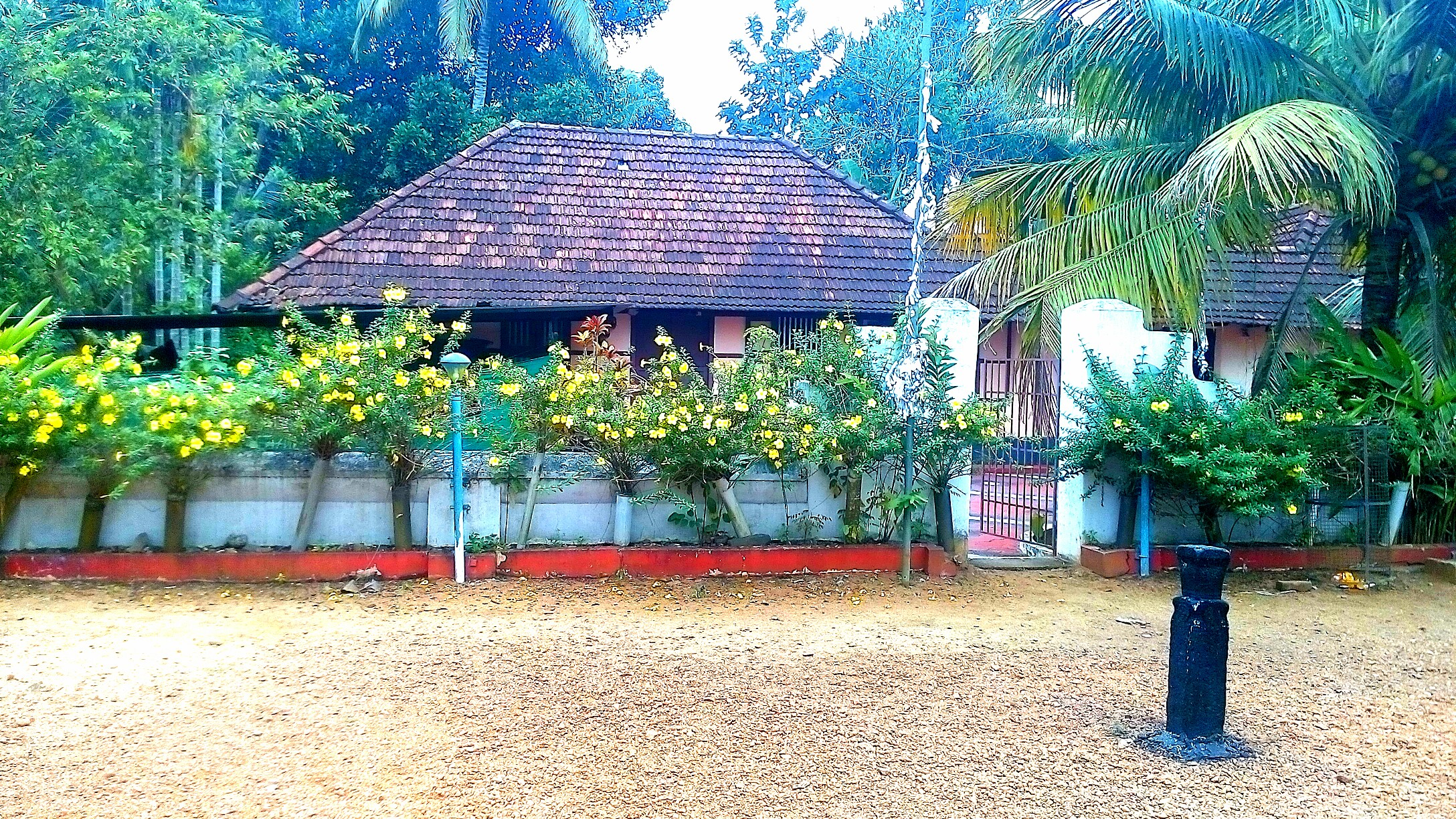 St.thomas converted family at niranam